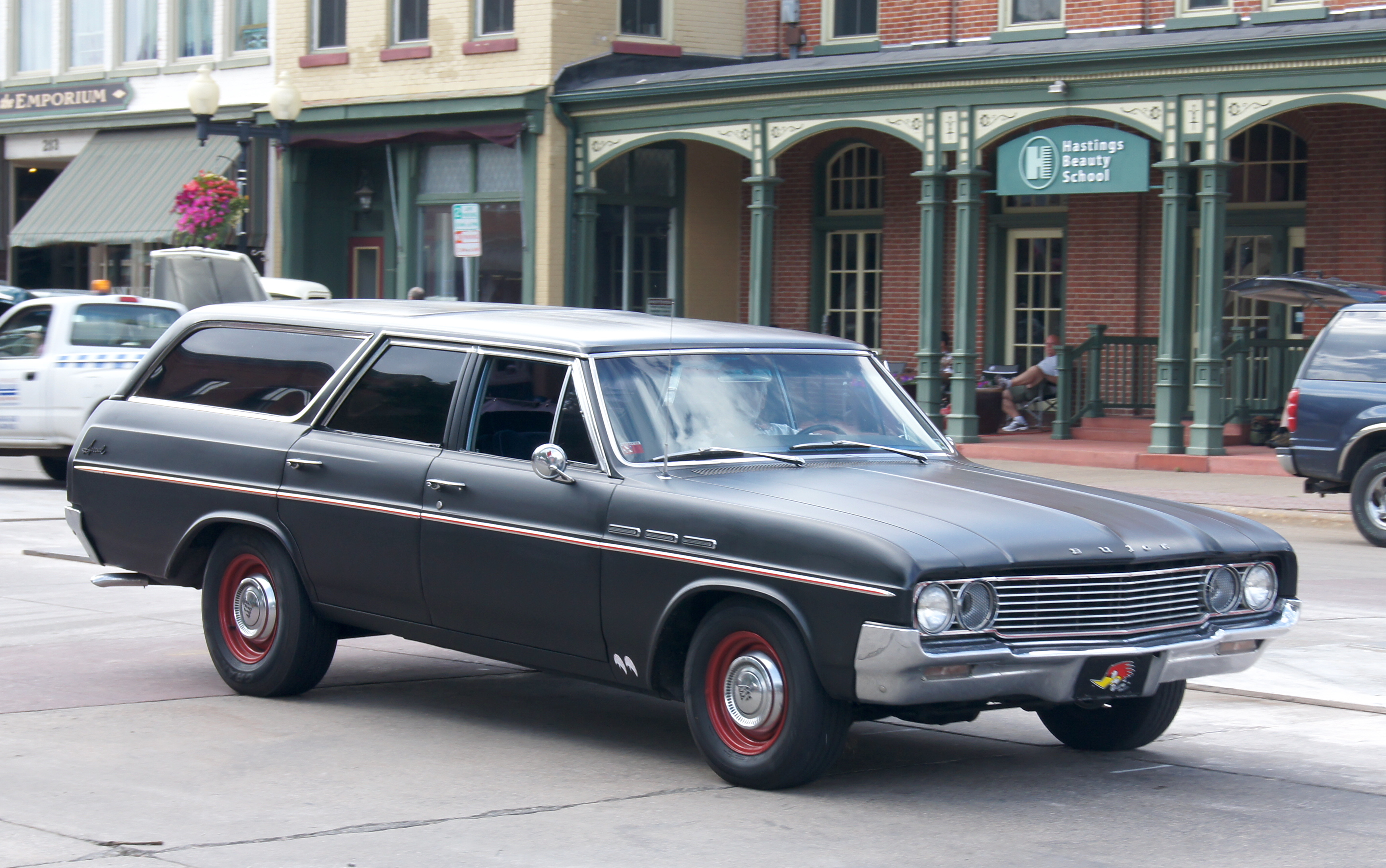 9th Annual Saturday Night Cruise-In June 28,2014 Hastings, Minnesota Participants said attendance was down quite a bit due to forecasts of rain and Thunderstorms. The meteorologists were right. An hour into the event, rain began to fall. For More of My Car Pictures click on the link below